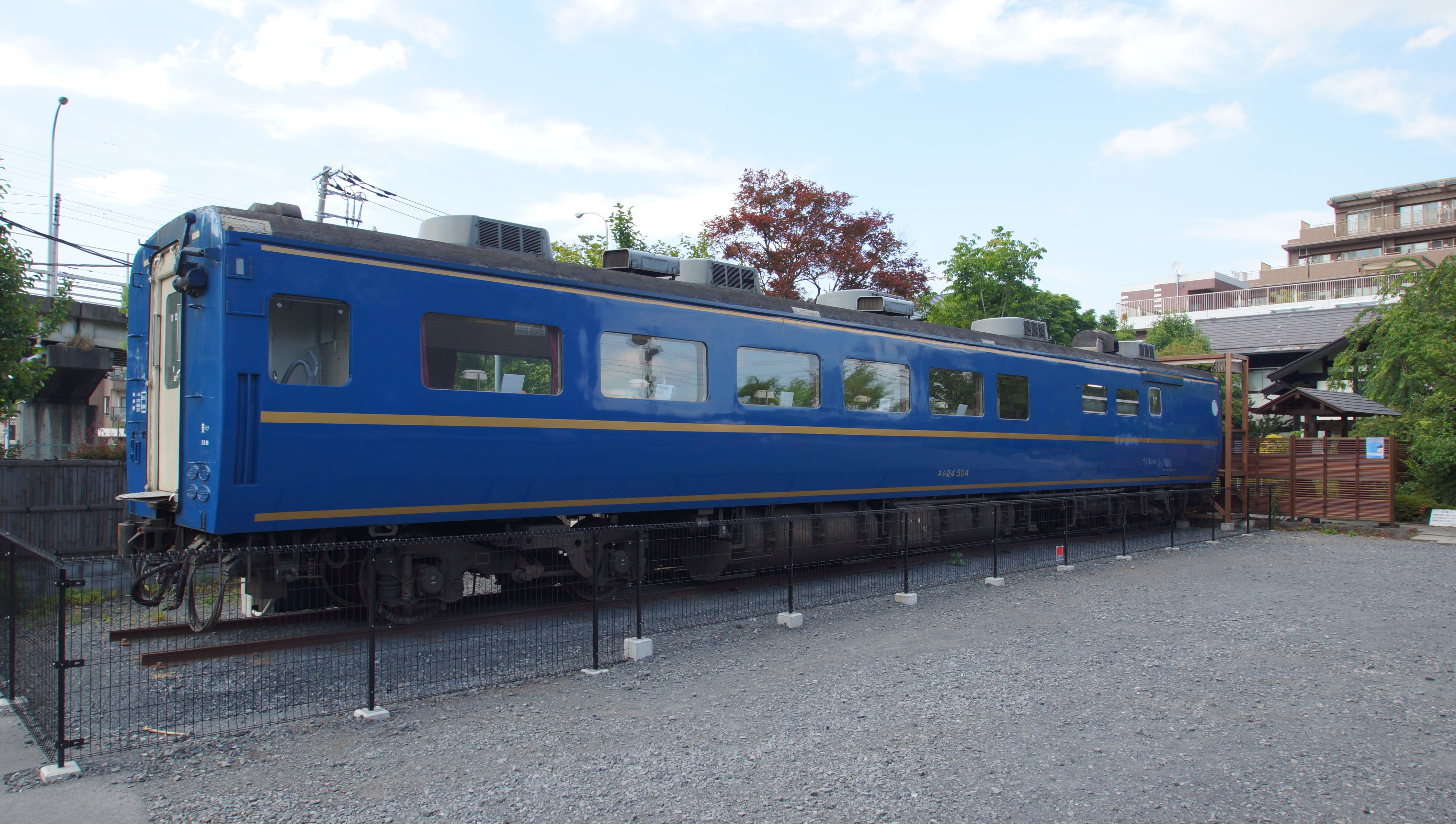 Former Hokutosei 24 series dining car SuShi 24-504 used as the "Grand Chariot" restaurant in Kawaguchi, Saitama Prefecture, Japan